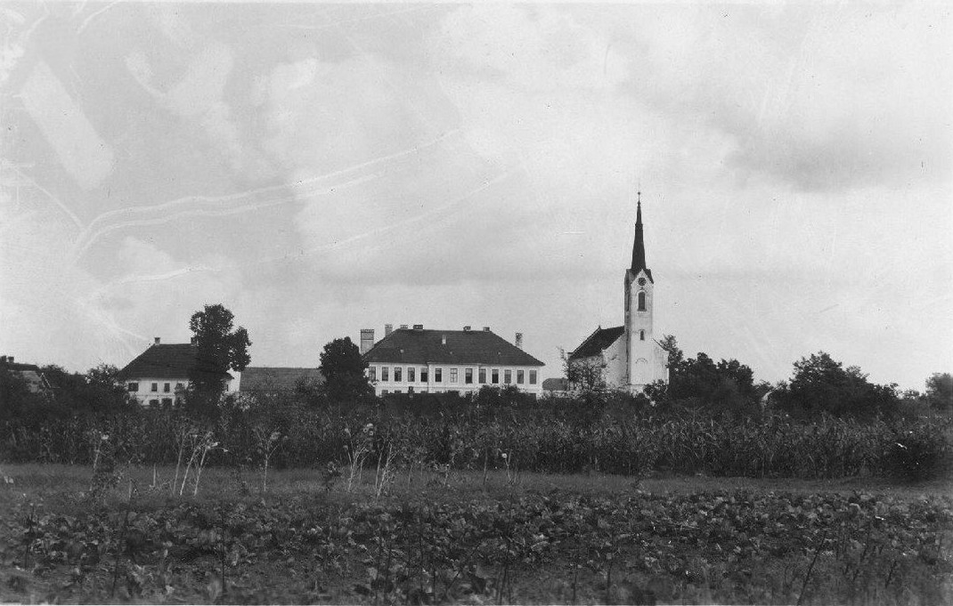 Postcard of Markovci